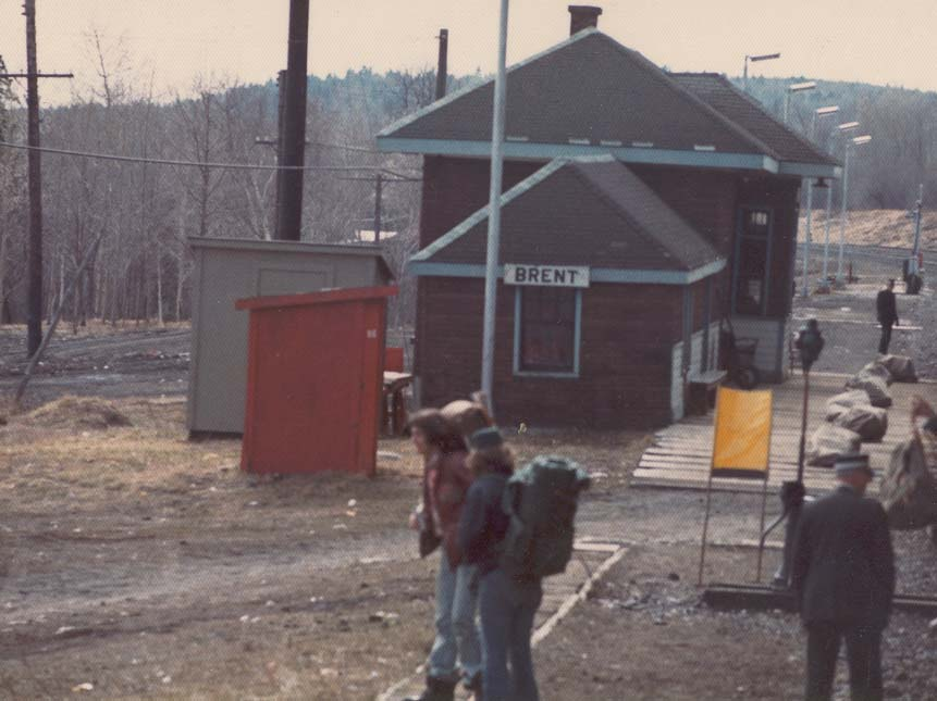 Arriving by train, Brent station CNR c1970's